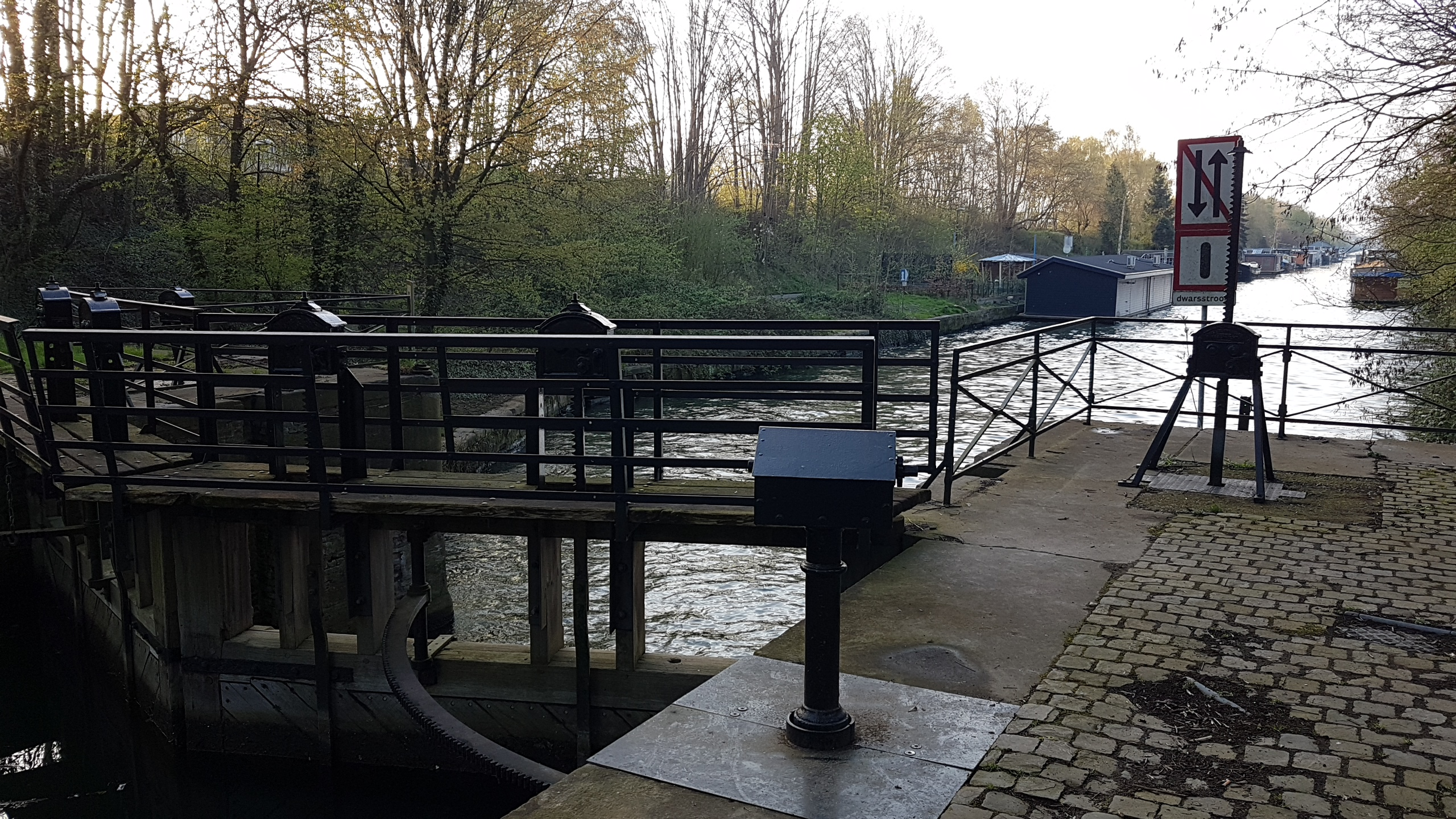 View of Lock nr. 19 in the Zuid-Willemsvaart canal in Maastricht, Netherlands. The canal opened in 1826. The lock and the drawbridge were finished in 1829.